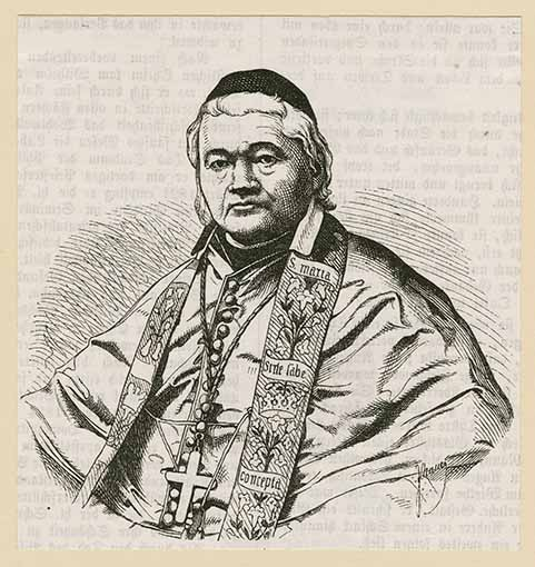 The catholic bishop of Trier (germany) Wilhelm Arnoldi (1798-1864)